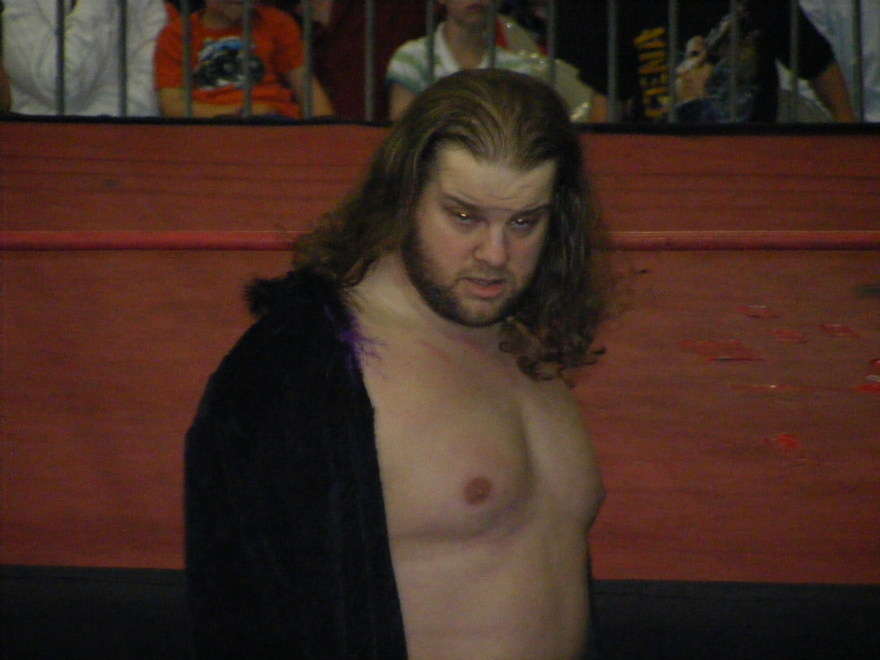 Pro wrestler Handsome Johnny (real name Todd Smith) at an APW show on May 24, 2008 in Rutland, VT.